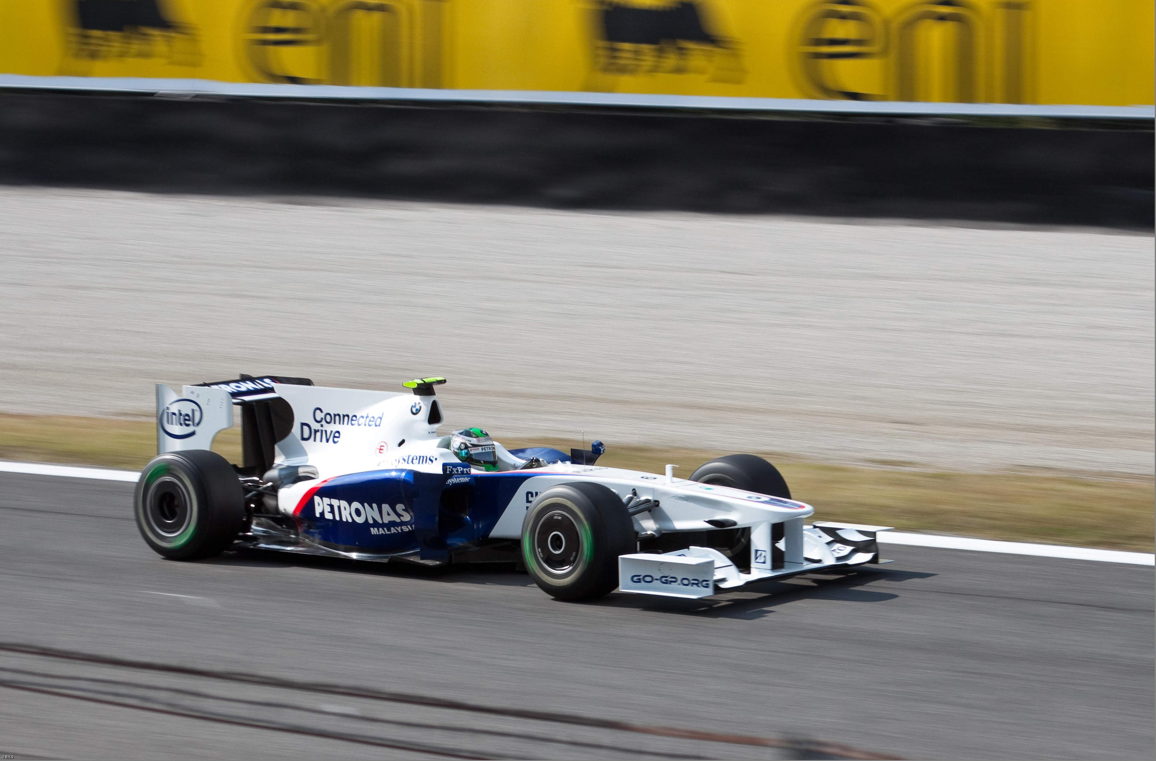 Nick Heidfeld driving for BMW Sauber at the 2009 Italian Grand Prix.